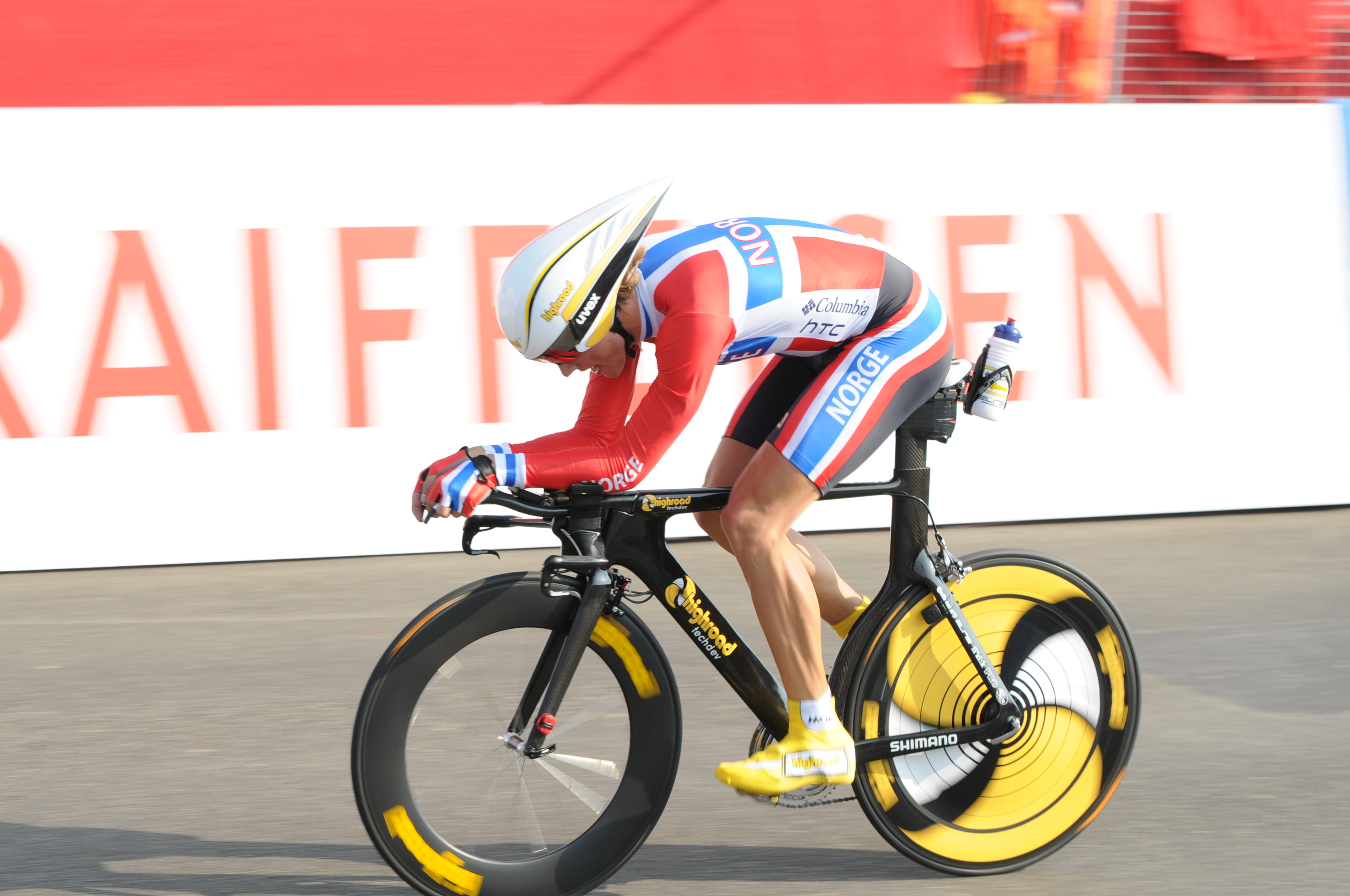 Edvald Boasson Hagen at UCI World Championships in Mendrisio, Switzerland